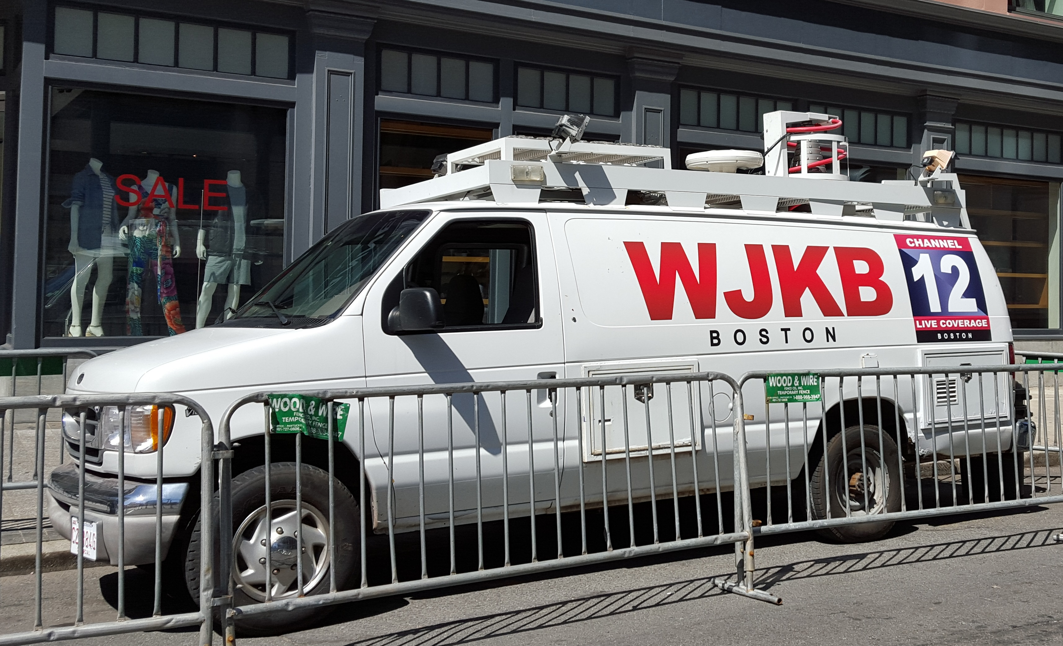 A television satellite truck prop used in the Patriots Day movie.